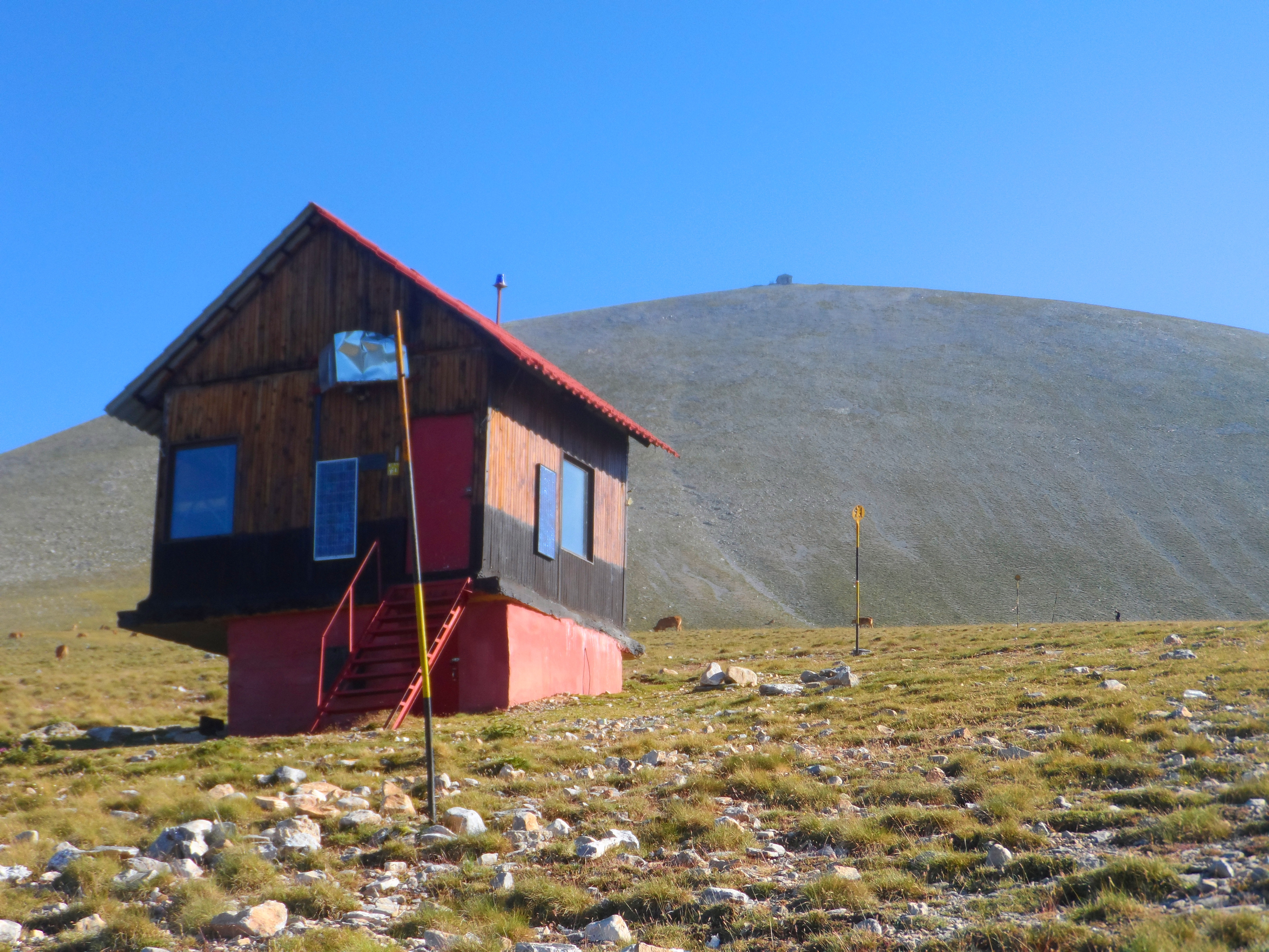 Kostas Migotzidis refuge and Aghios Antonios refuge in the background